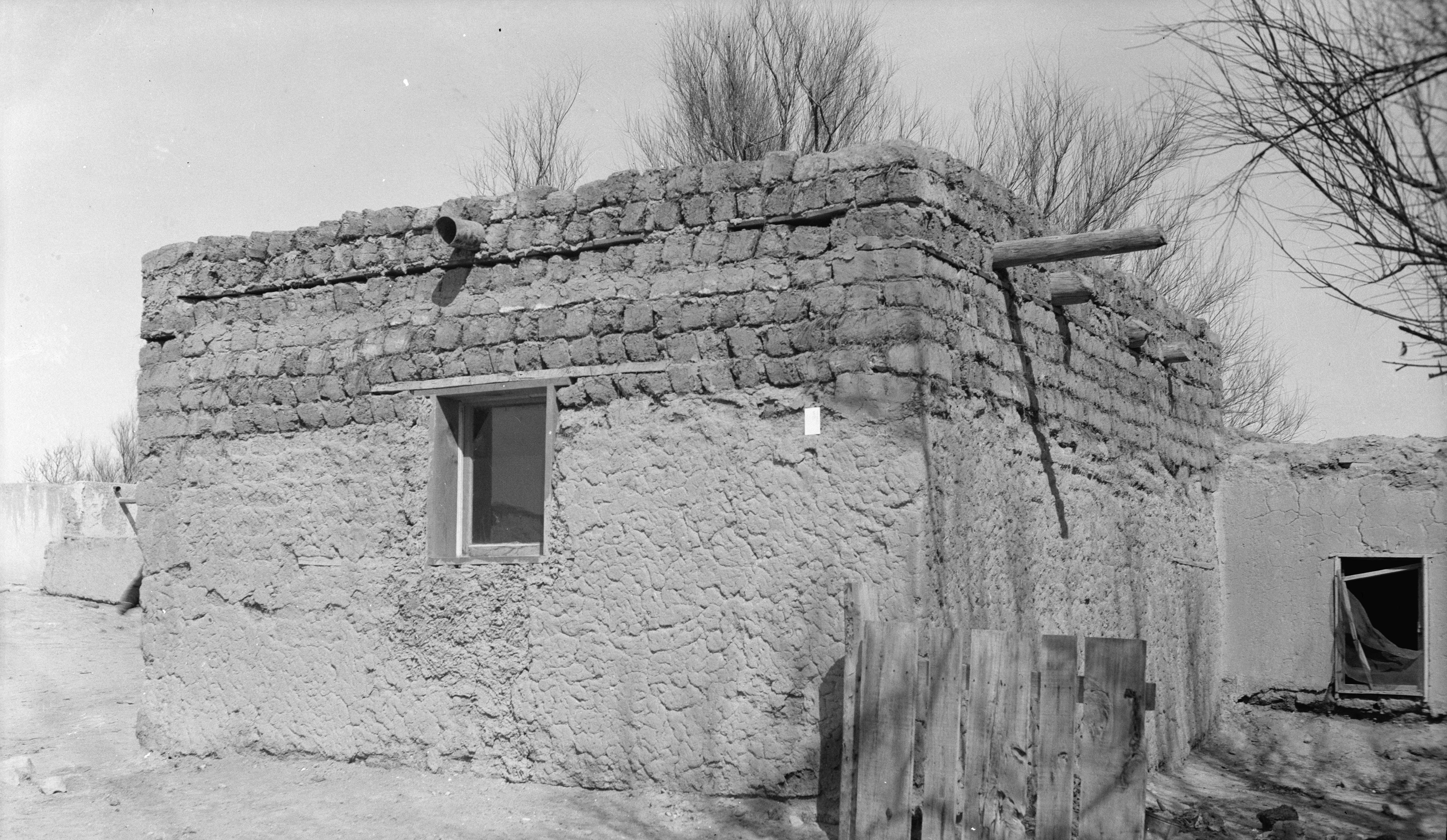 Adobe and sod house at Isleta Pueblo in Bernalillo County, New Mexico, United States. It is a contributing property to the Isleta Pueblo Historic District, which is listed on the National Register of Historic Places.